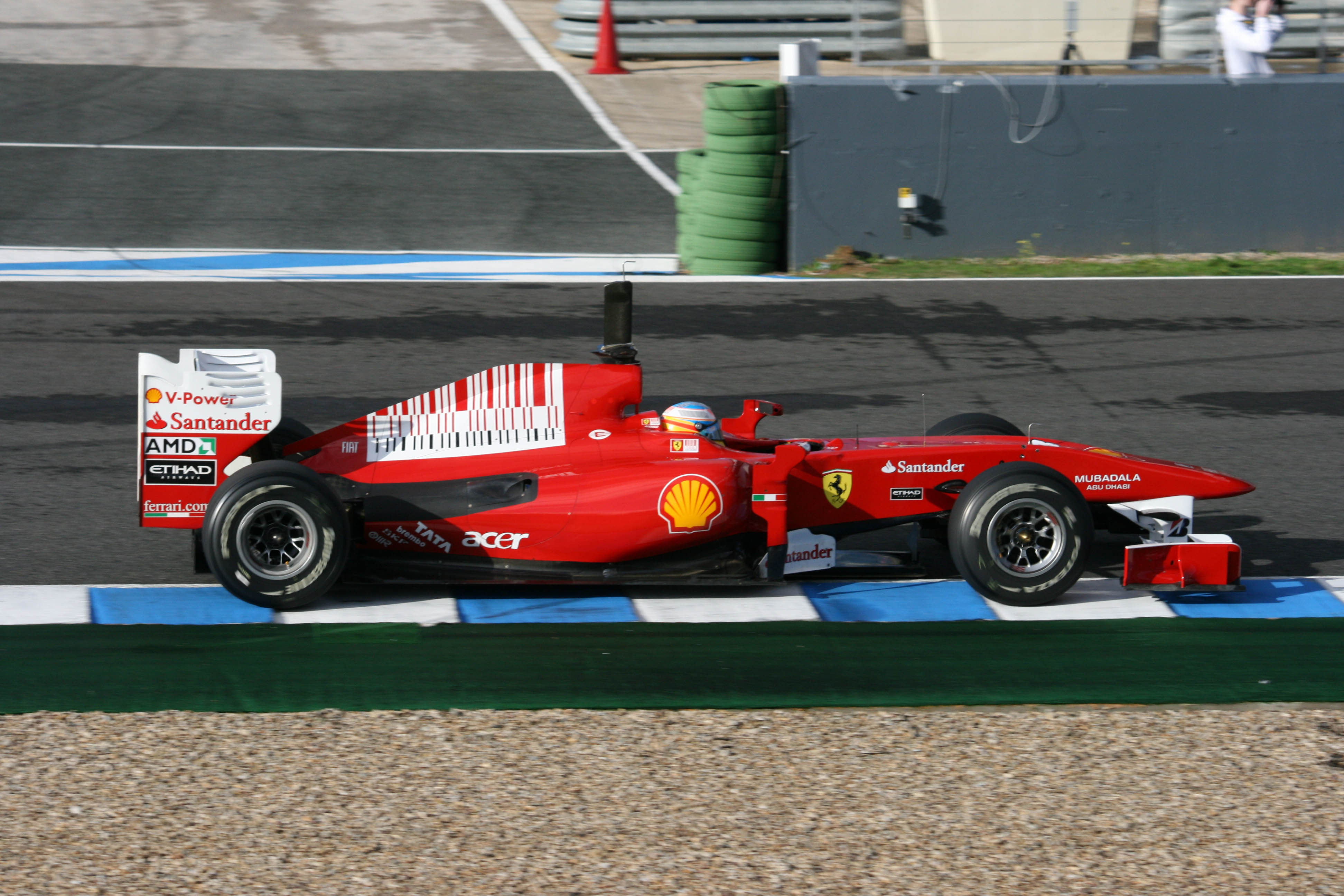 Fernando Alonso testing for Scuderia Ferrari at Jerez, 11/02/2010.